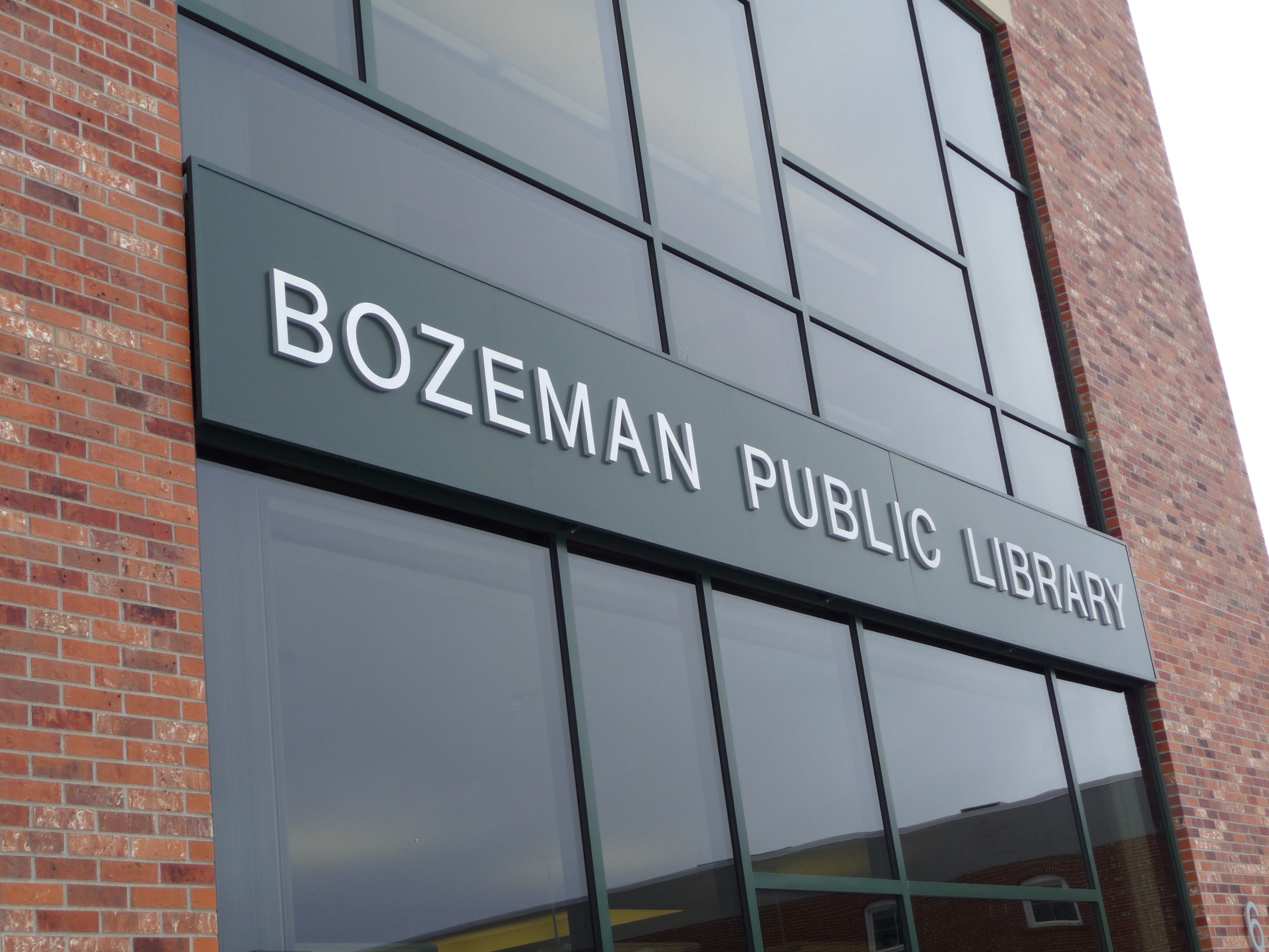 Bozeman Public Library